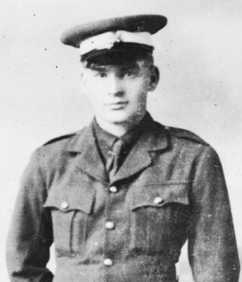 Lieutenant William David Kenny, 4/39th Garhwal Rifles, Indian Army, awarded the Victoria Cross, Kot Kai, North West Frontier, India, 2 January 1920.